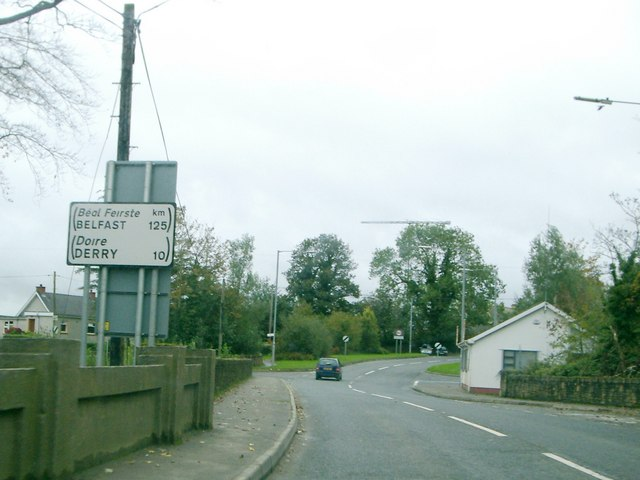 ROI/NI road border at Muff, County Donegal / Culmore, Co Londonderry Road border of Muff, Co Donegal, Republic of Ireland (R238 road) / Culmore, Co Londonderry, Northern Ireland (A2 road). Republic of Ireland distance sign located in foreground and Northern Ireland speed limit signs can be seen in the distance.